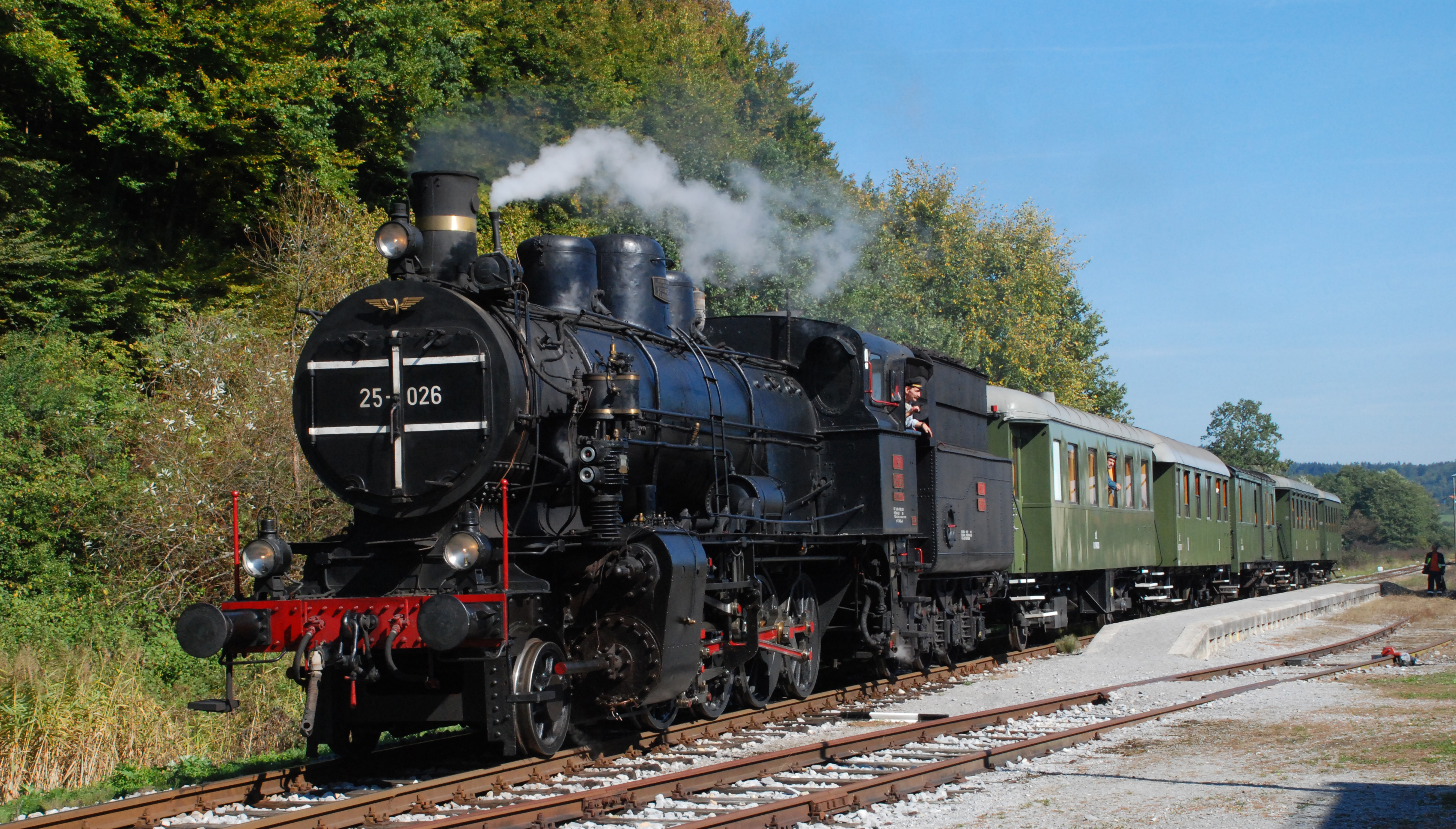 Museum train, property of Slovenske železnice. Photographed at the Mokronog train station, Slovenia. Steam train SŽ 25-026, manufactured in 1920, Vienna.